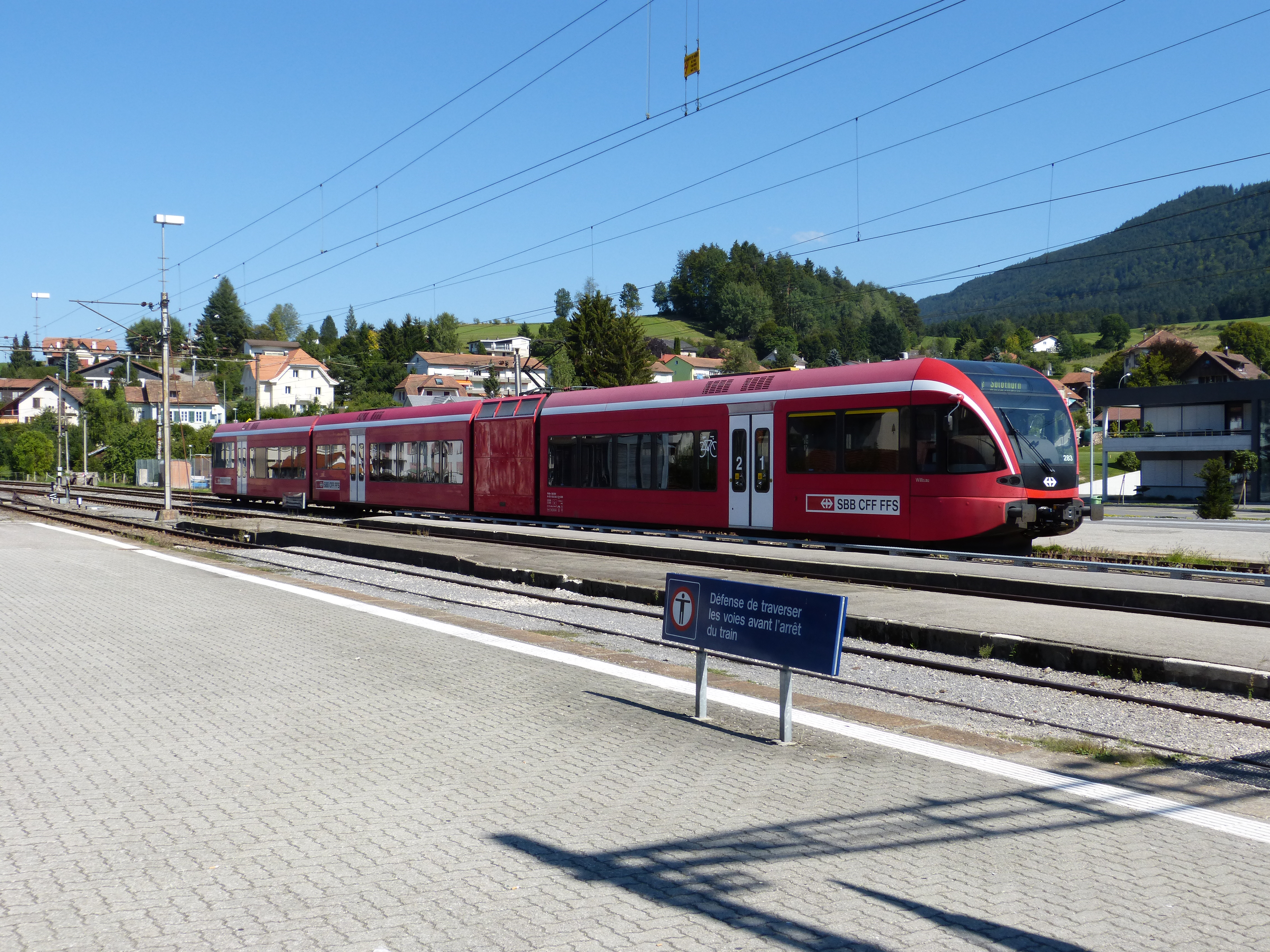 Self-propelled SBB CFF FFS RABe 526 283 "Willisau" leaving the railway station of Tavannes for Solothurn.